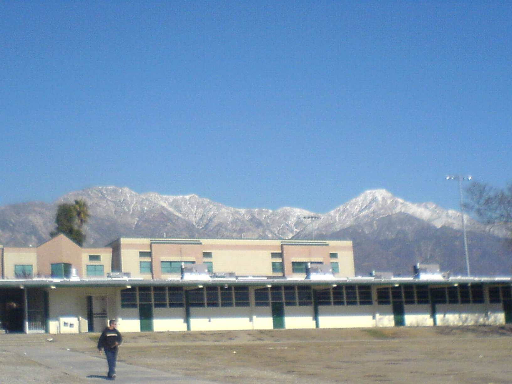 Photo of the San Gabriel Mountains with Mount Ontario and Cucamonga Peak — from Upland High School, in Upland, California.